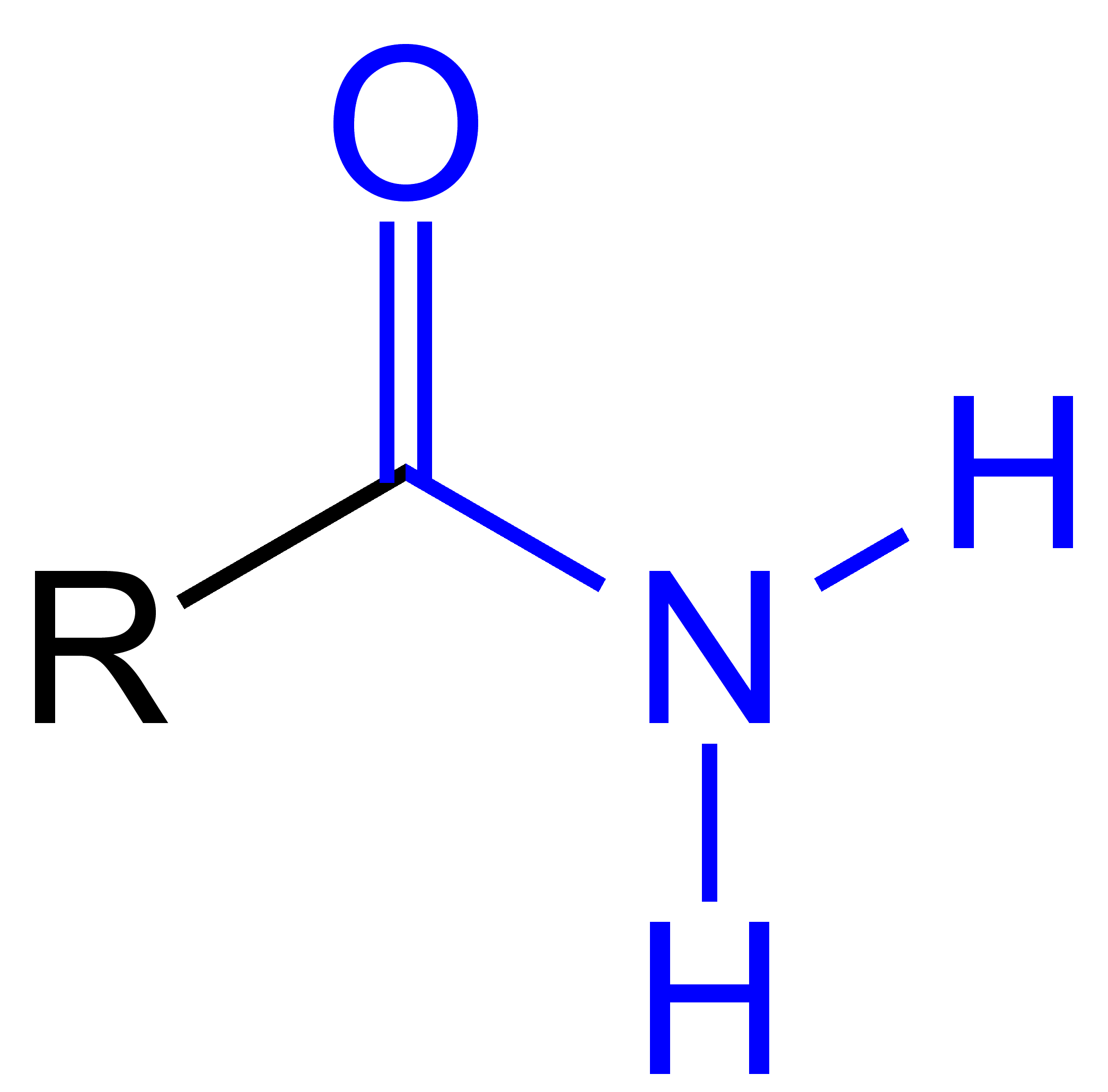 Carbamoyl_Group_General_Formula